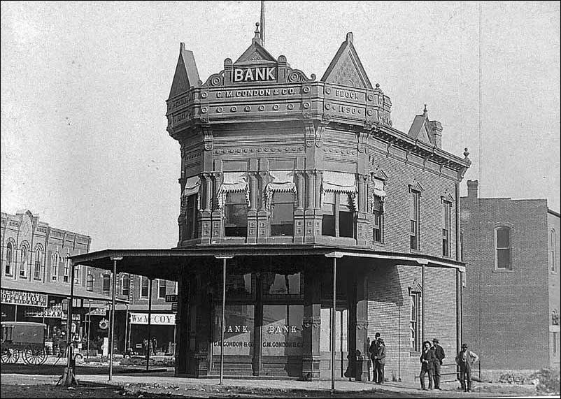 Condon Bank Coffeyville, Kansas c. 1890 one of the two banks robbed by the Dalton Gang on October 5, 1892